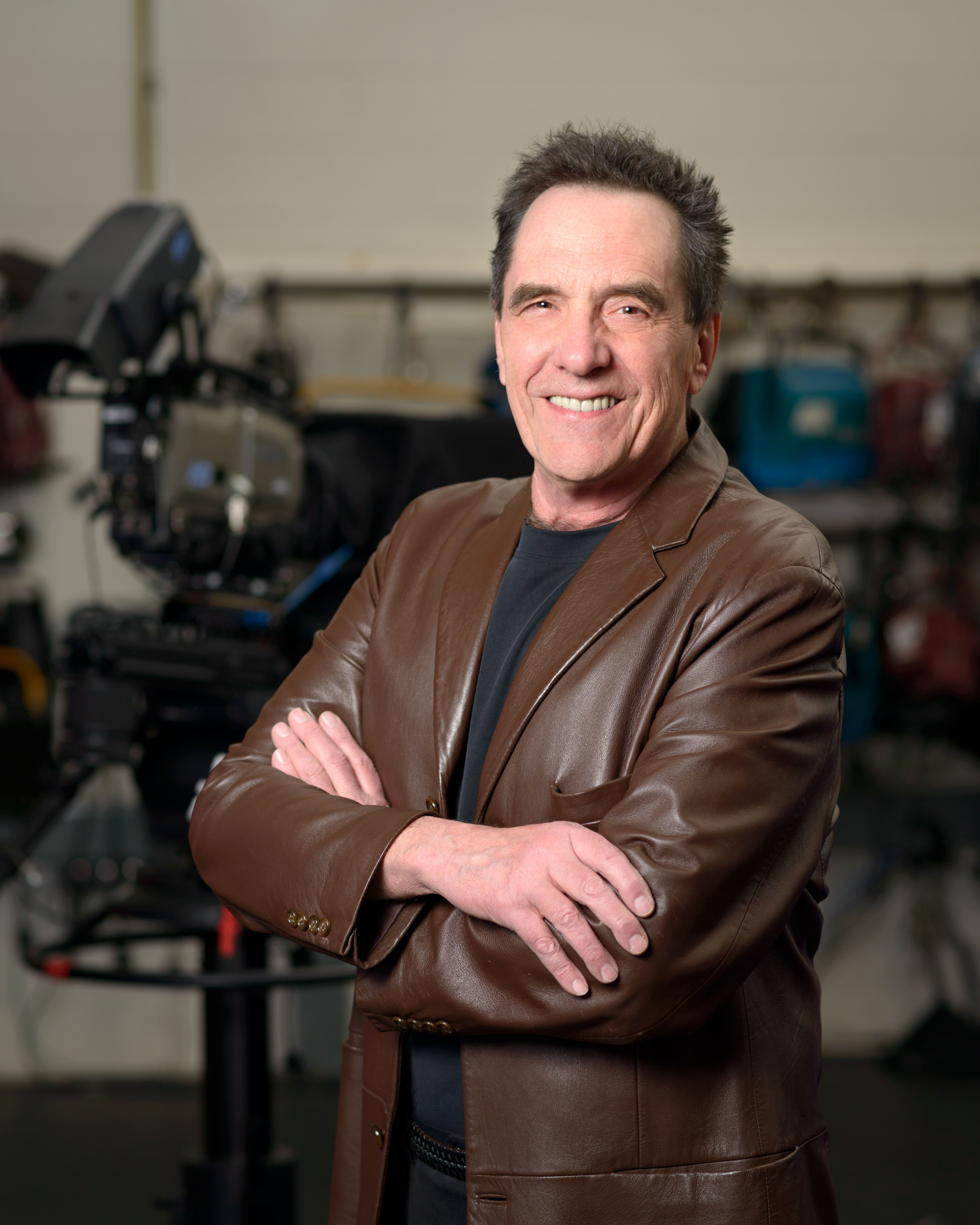 Public relations photo of me in a television studio, celebrating the 25th anniversary of "Ciao Italia with Mary Ann Esposito."